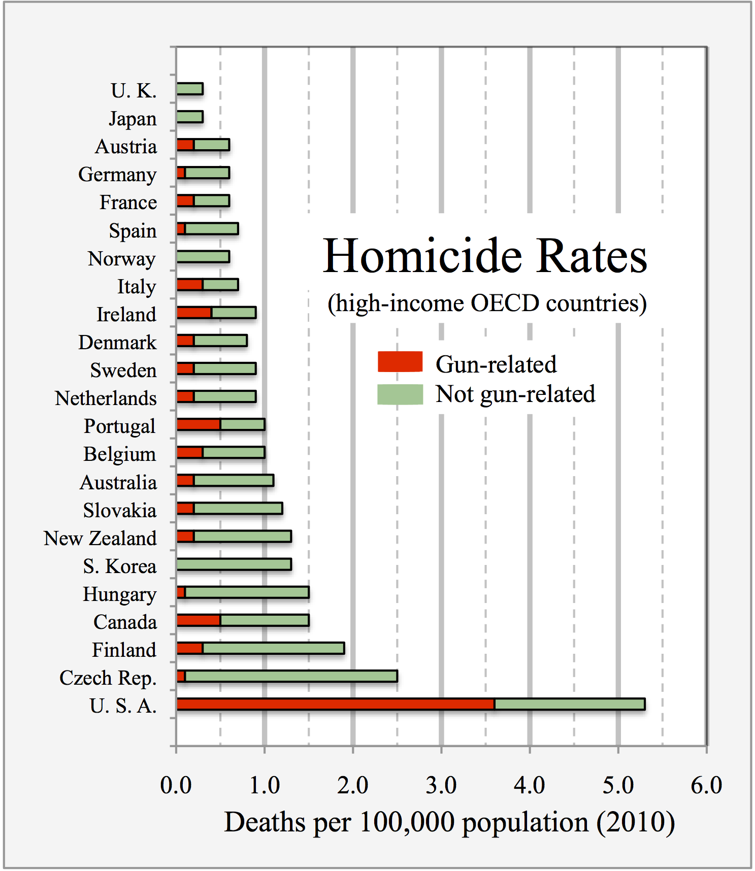 Homicide Rates in high-income OECD countries, 2010. Graph sums gun-related homicide rates and non-gun-related homicide rates. Countries are ordered based on increasing total homicide rates. Source of raw data: (March 2016). "Violent Death Rates: The US Compared with Other High-income OECD Countries, 2010". The American Journal of Medicine 129 (3): 266–273. (Table 4). (PDF). Footnote, with links, is below.[1] Country Firearm Homicide Rate Non-Firearm Homicide Rate Total Homicide Rate U. S. A. 3.6 1.7 5.3 Czech Rep. 0.1 2.4 2.6 Finland 0.3 1.6 1.9 Canada 0.5 1 1.5 Hungary 0.1 1.4 1.5 S. Korea 0 1.3 1.3 New Zealand 0.2 1.1 1.2 Slovakia 0.2 1 1.2 Australia 0.2 0.9 1.1 Belgium 0.3 0.7 1.1 Portugal 0.5 0.5 1 Netherlands 0.2 0.7 0.9 Sweden 0.2 0.7 0.9 Denmark 0.2 0.6 0.8 Ireland 0.4 0.5 0.8 Italy 0.3 0.4 0.8 Norway 0 0.6 0.7 Spain 0.1 0.6 0.7 France 0.2 0.4 0.6 Germany 0.1 0.5 0.6 Austria 0.2 0.4 0.5 Japan 0 0.3 0.3 U. K. 0 0.3 0.3